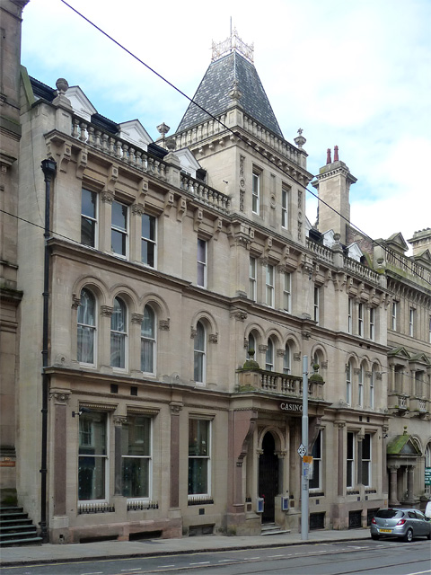 16-18 Victoria Street, Nottingham